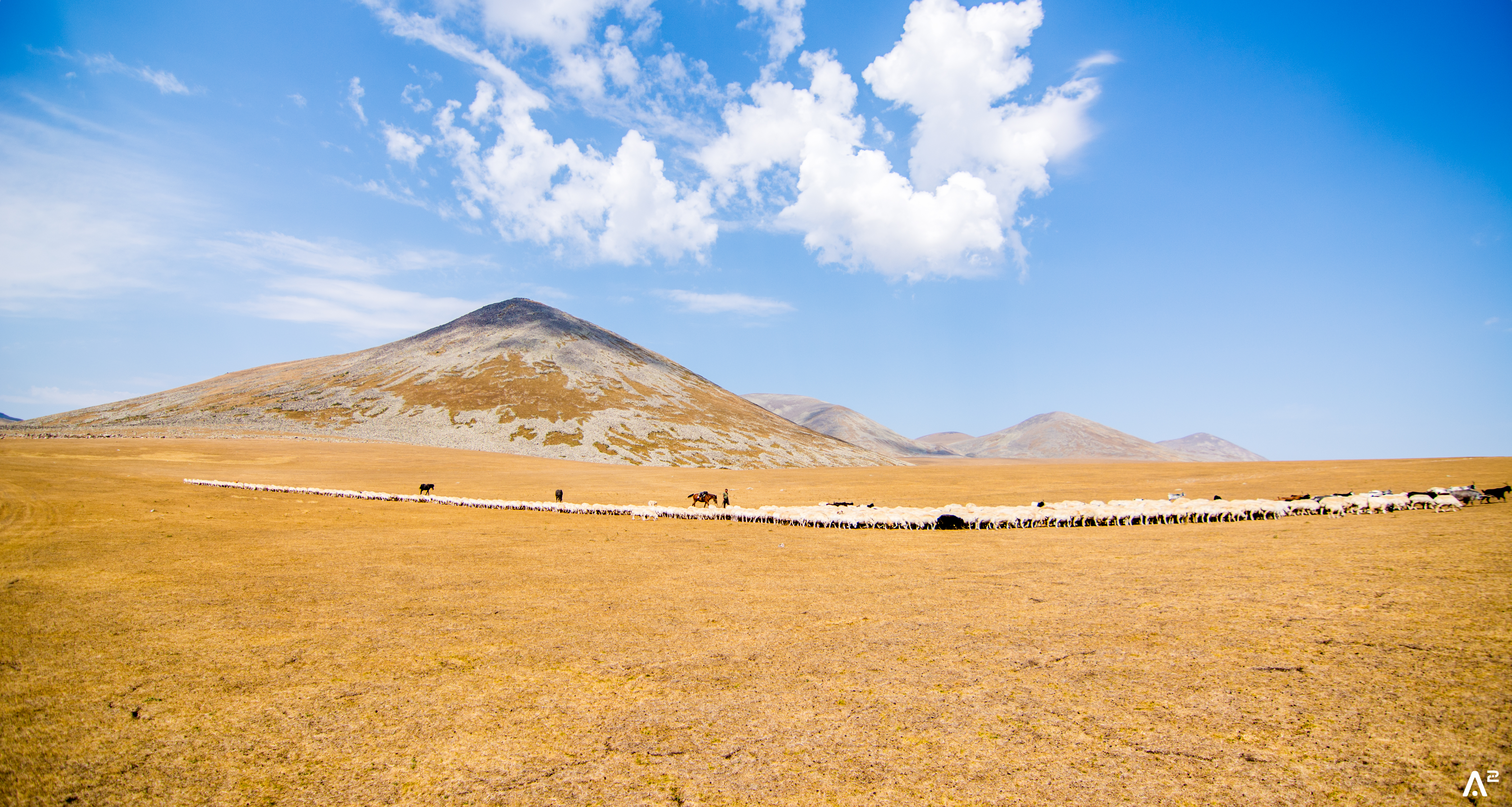 Javakheti, near the Paravani lake. Javakheti National Park.